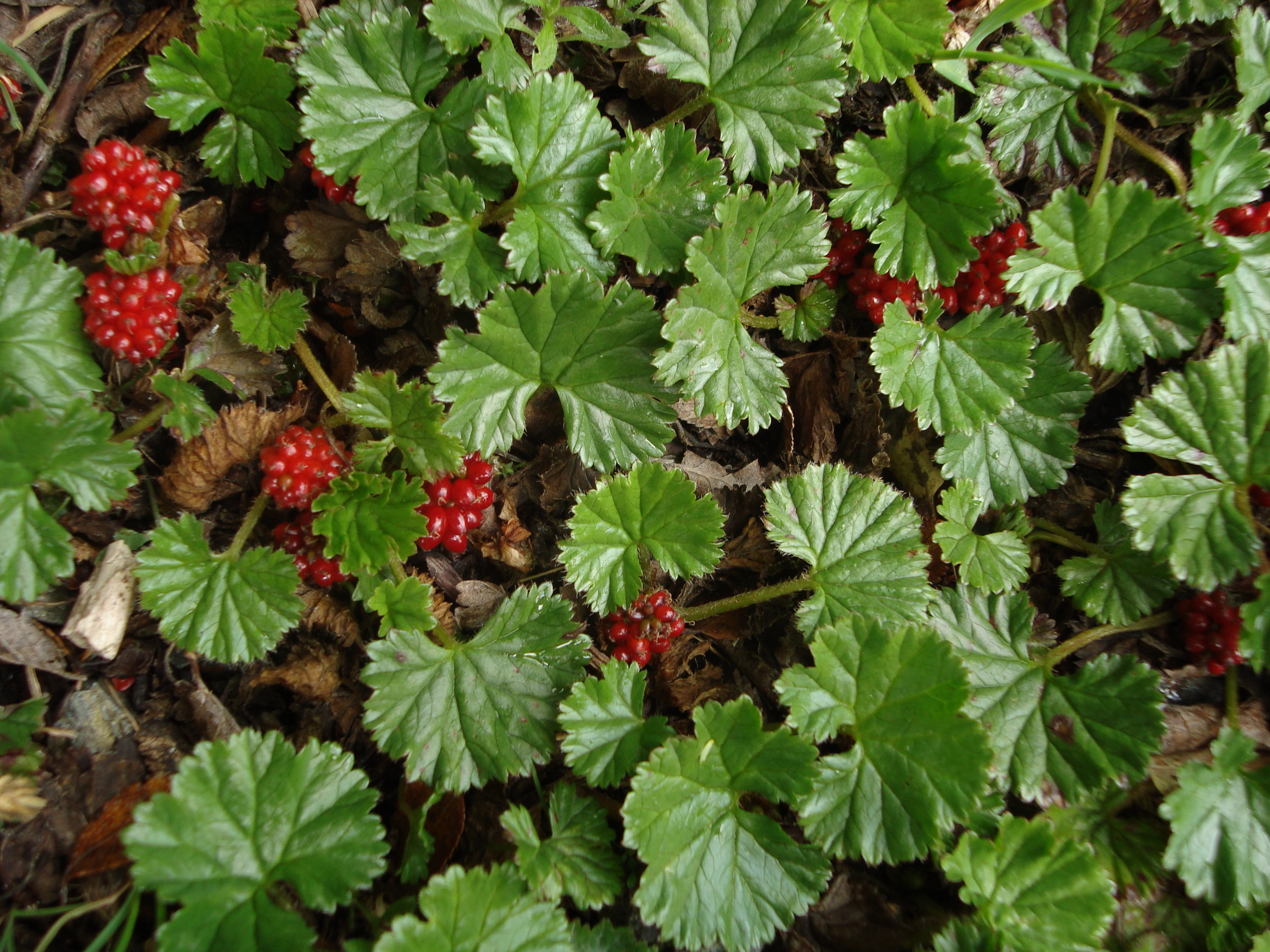 Gunnera magellanica Lam. Hard to believe this is the same genus as G. tinctoria with its elephant-sized leaves, isn't it? It is quite abundant down here. The rest of the genus appears to be more in the northern Andes, Uruguay and Brazil.